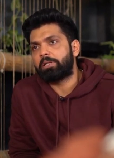 Shetty in an interview from 2019.